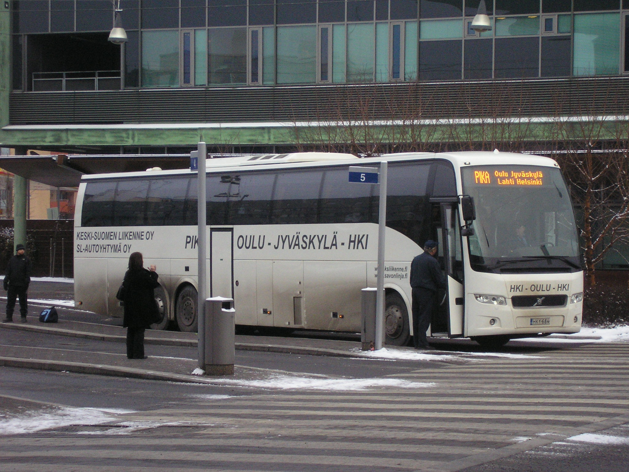 Keski-Suomen Liikenne and Savonlinja Volvo B12M/9700HD 6x2 (no. 747, HKY-684, 2008) in Jyväskylä, Finland.